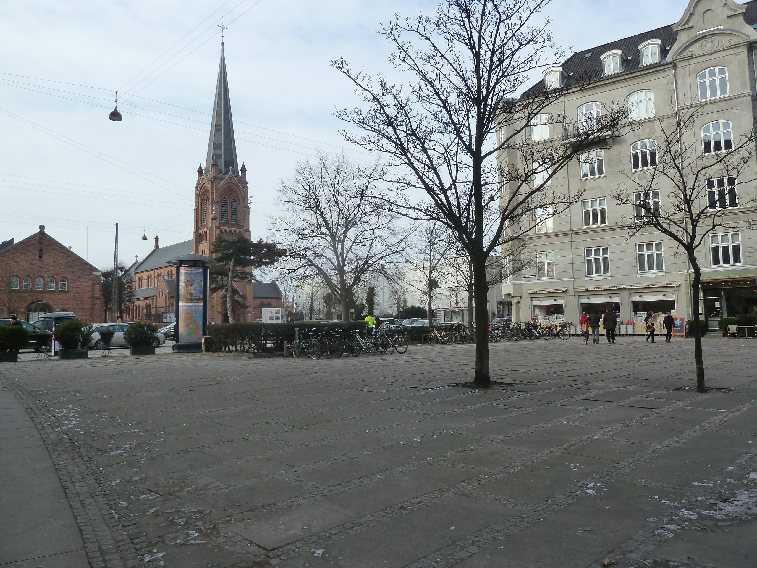 The square Sankt Jakobs Plads at the church Sankt Jakobs Kirke in Østerbro in Copenhagen.